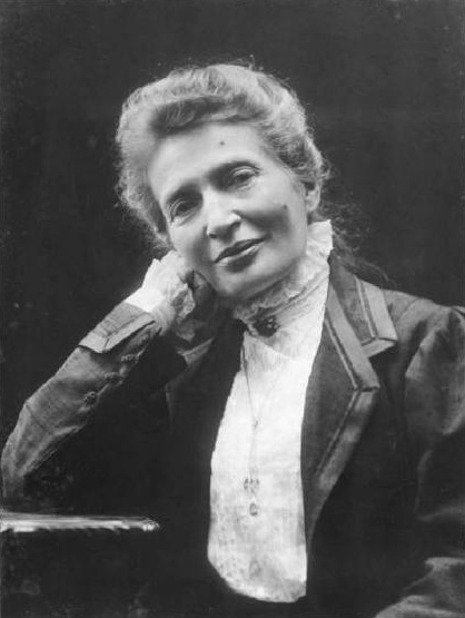 Mario Nunes Vais (1856-1932), "Anna Kuliscioff in Florence" (1908).